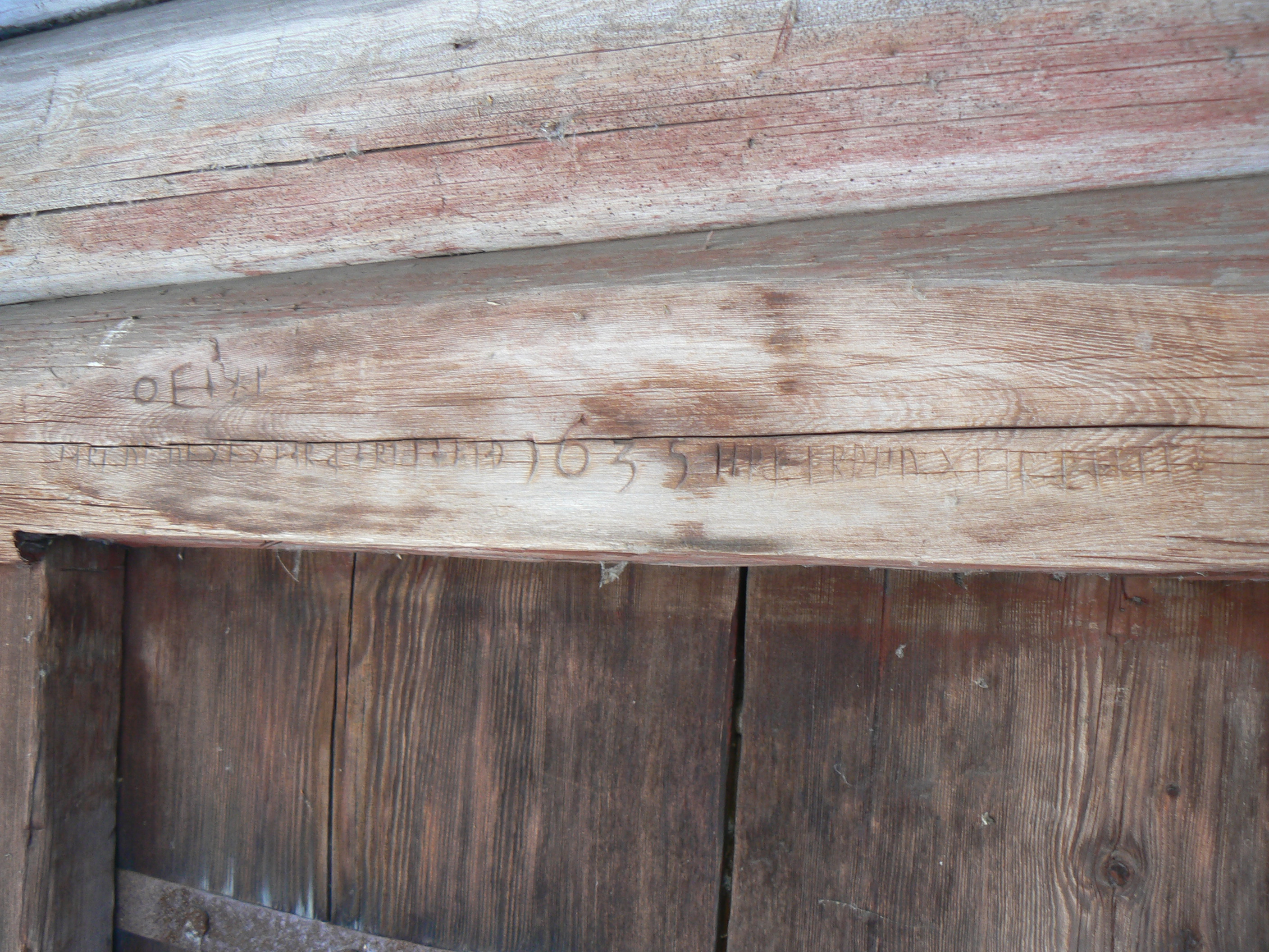 Dalecarlian rune inscription from 1635 in Orsblecksloftet, Zorns gammelgård, Mora, Mora Municipality, Dalarna, Sweden.